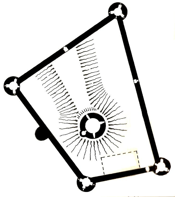 Plan of Skenfrith castle